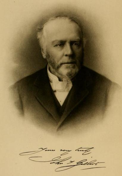 Sir John Thomas Gilbert (1829-1898), an Irish archivist, antiquarian and historian. From a book, Life of Sir John T. Gilbert, LL.D., F.S.A., Irish historian and archivist, vice-president of the Royal Irish academy, secretary of the Public record office of Ireland by Rosa Mulholland Gilbert (1841-1921) published in 1905 in London and New York: Longmans.